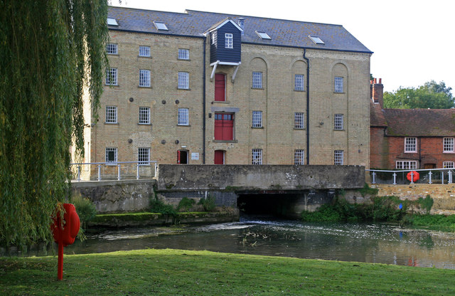 Holme Mills, Jordans Cereals in October 2015